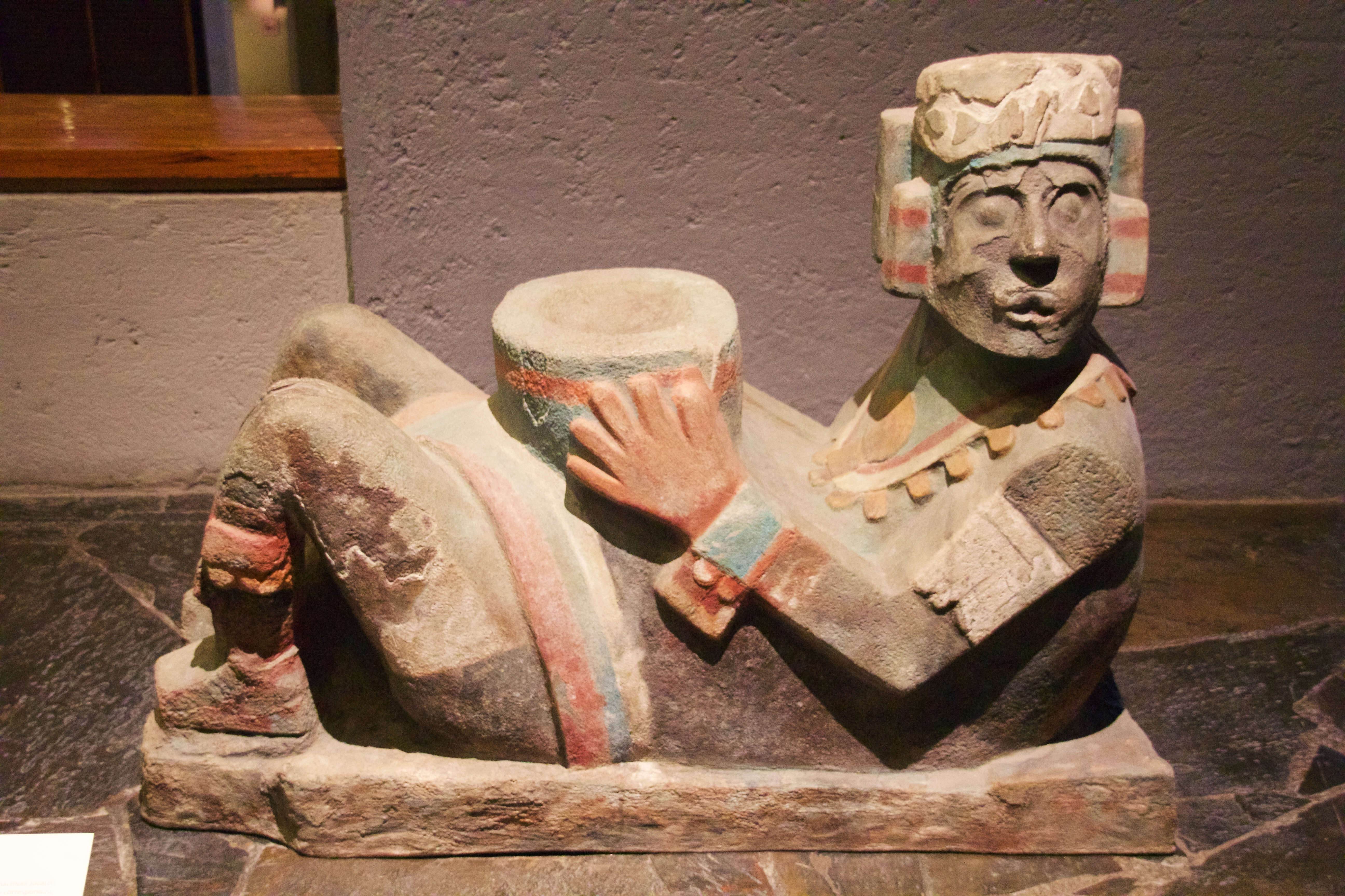 Stage II Chacmool. Templo Mayor, Mexico City, Mexico.